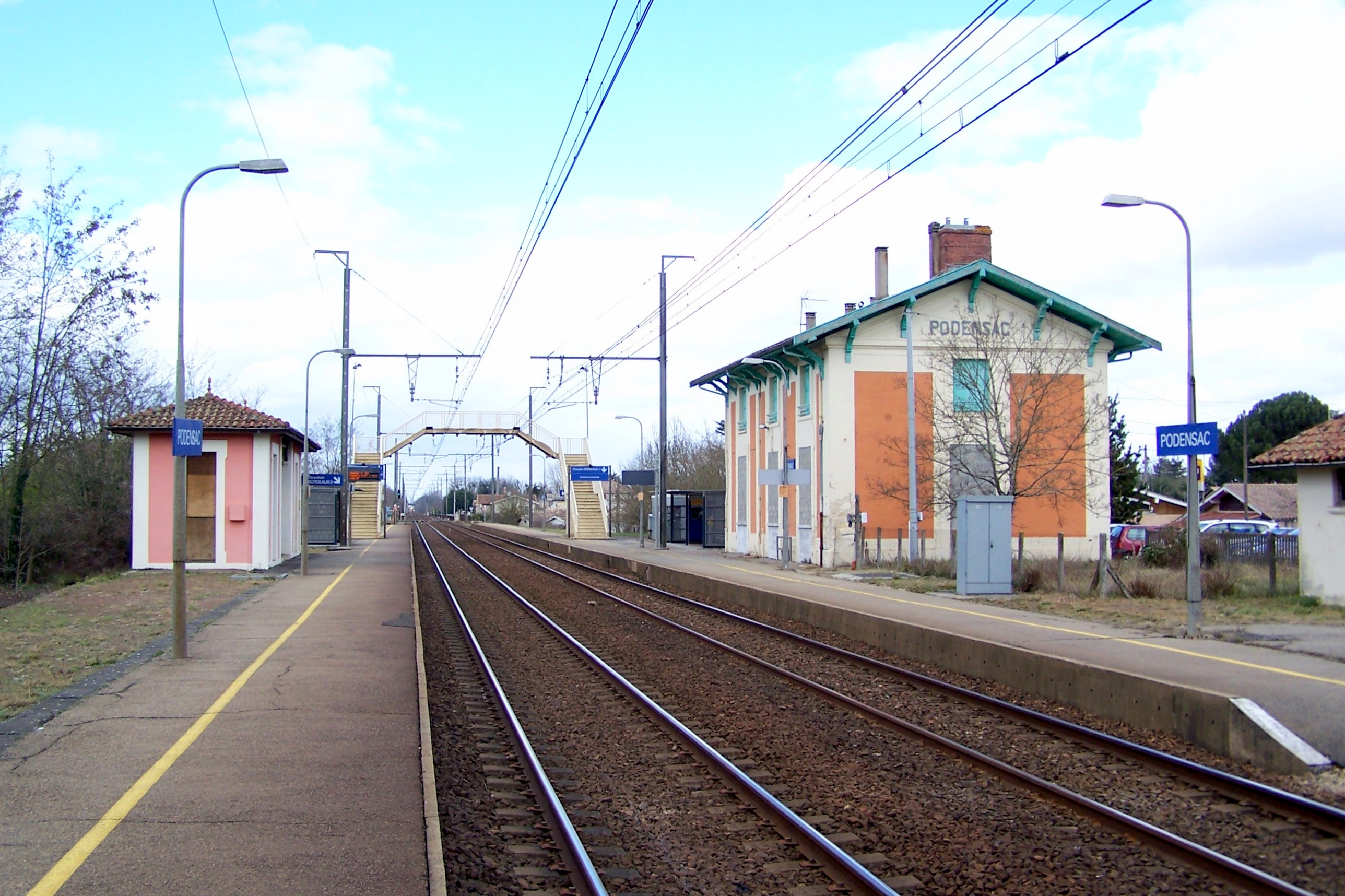 Train station of Podensac (Gironde, France)